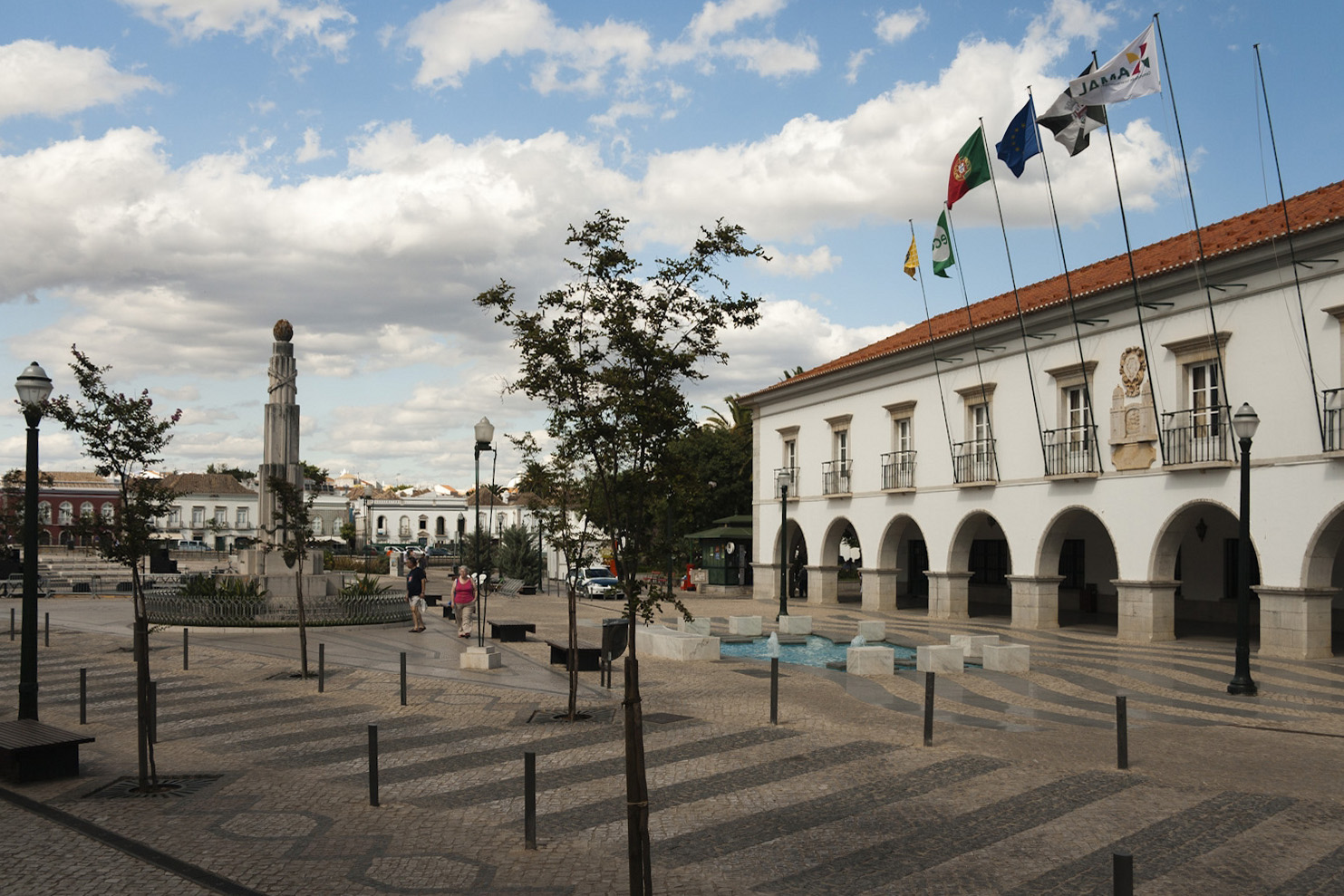 The Camara Municipal located on Praça da República in the town of Tavira, Algarve, Portuga.